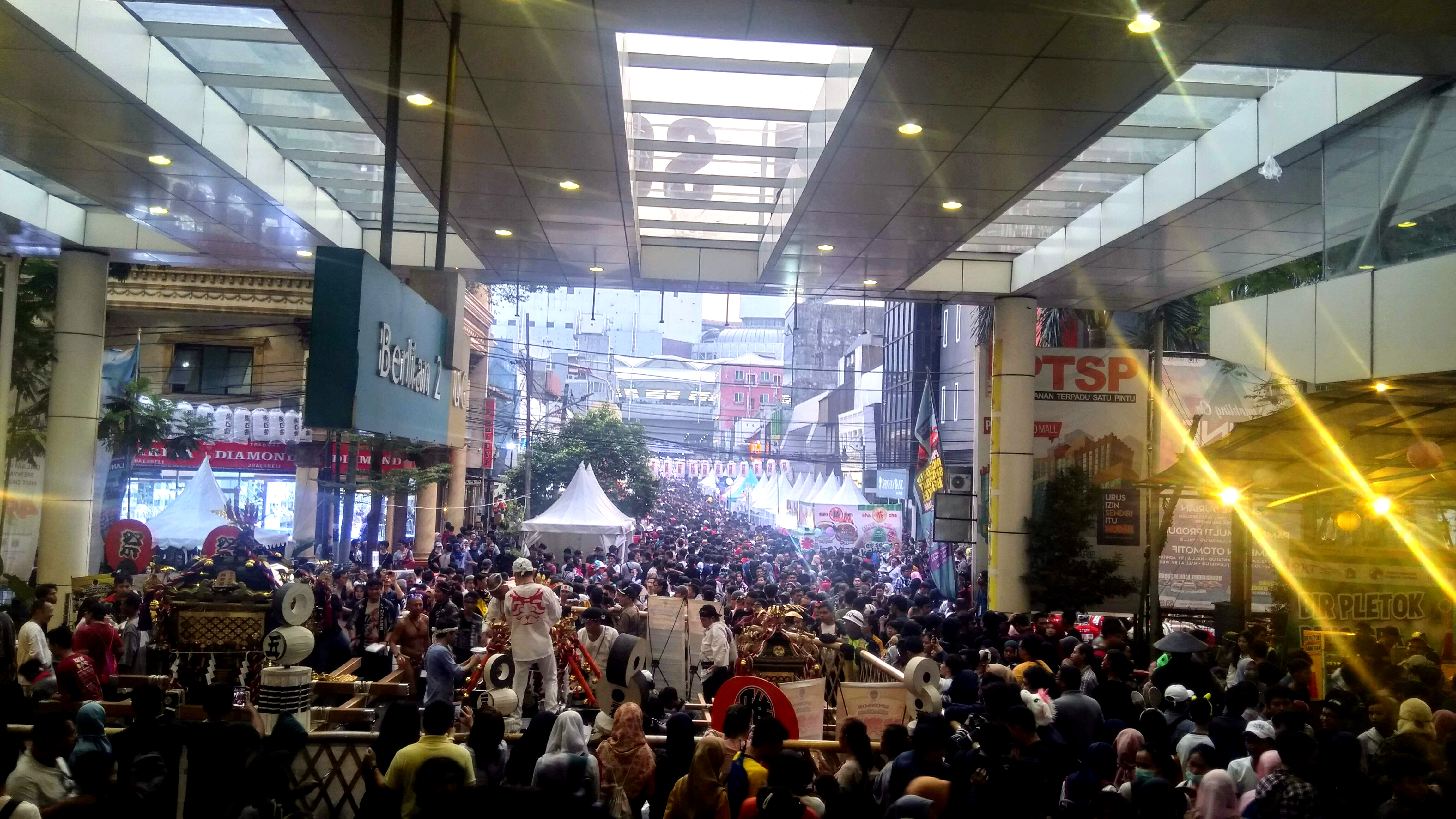 Crowd of Ennichisai 2019, viewed from the front of Blok M Square